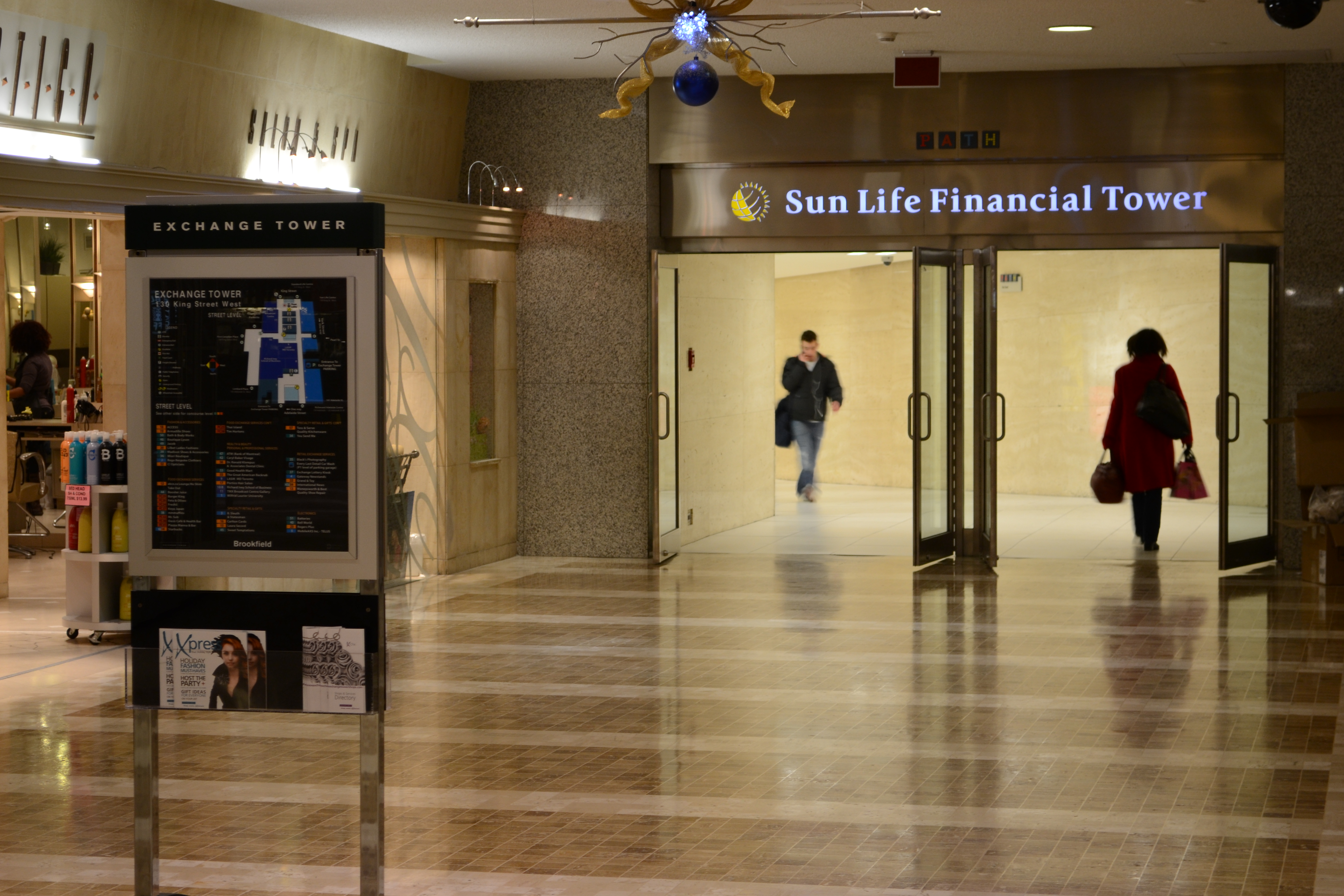 PATH, Sun Life Financial Centre - Exchange Tower